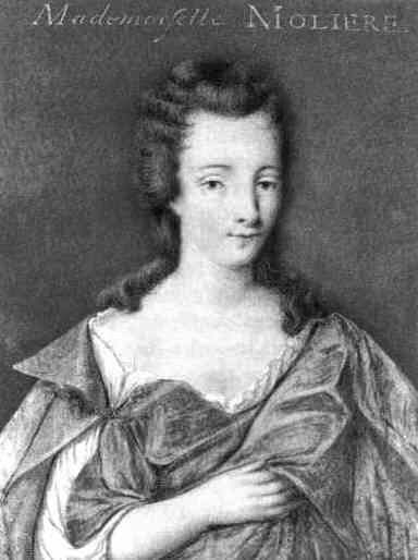 French actress, Armande Béjart (1642-1700), wife of Molière.